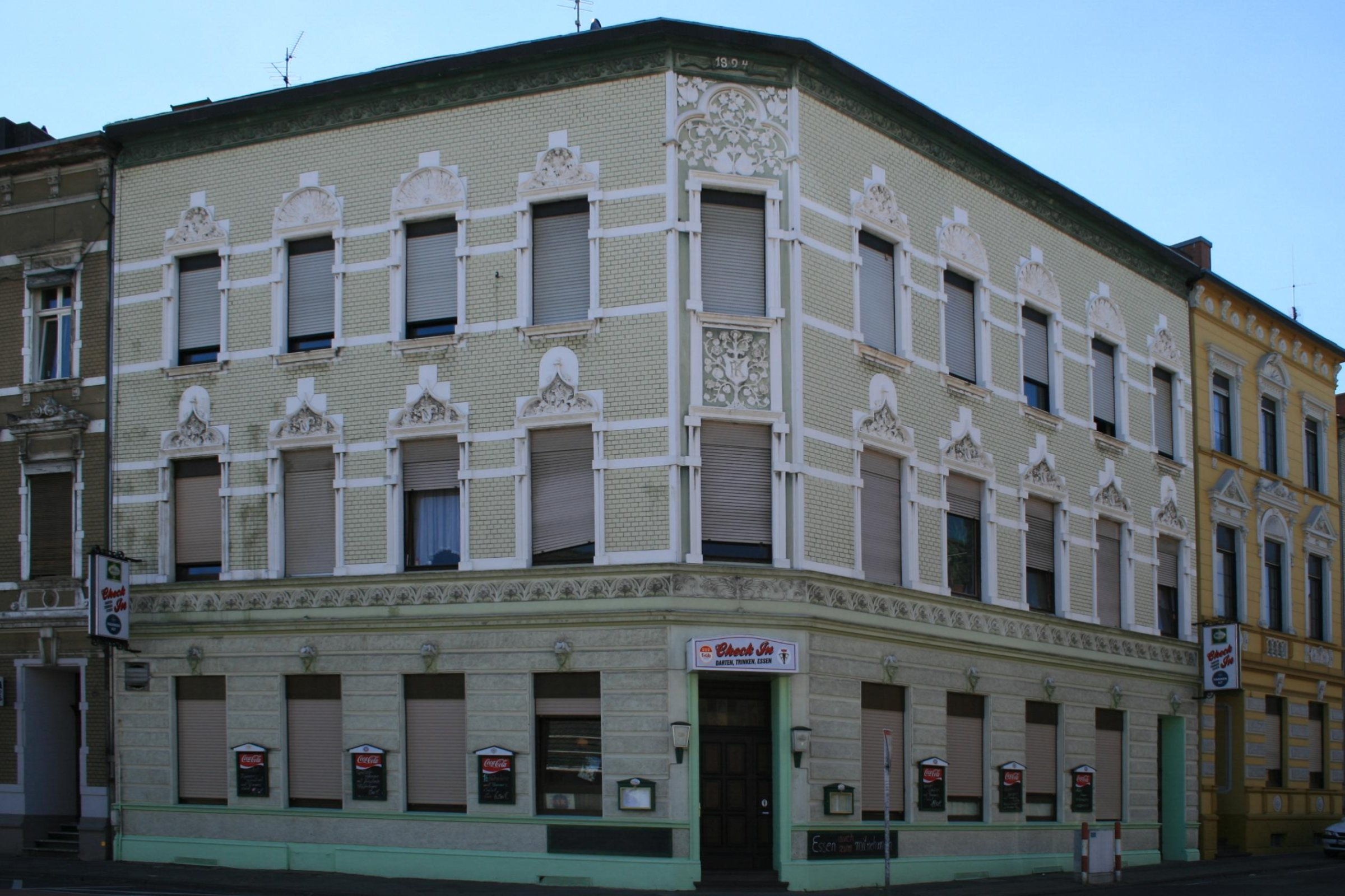 Cultural heritage monument No. E 017 in Mönchengladbach